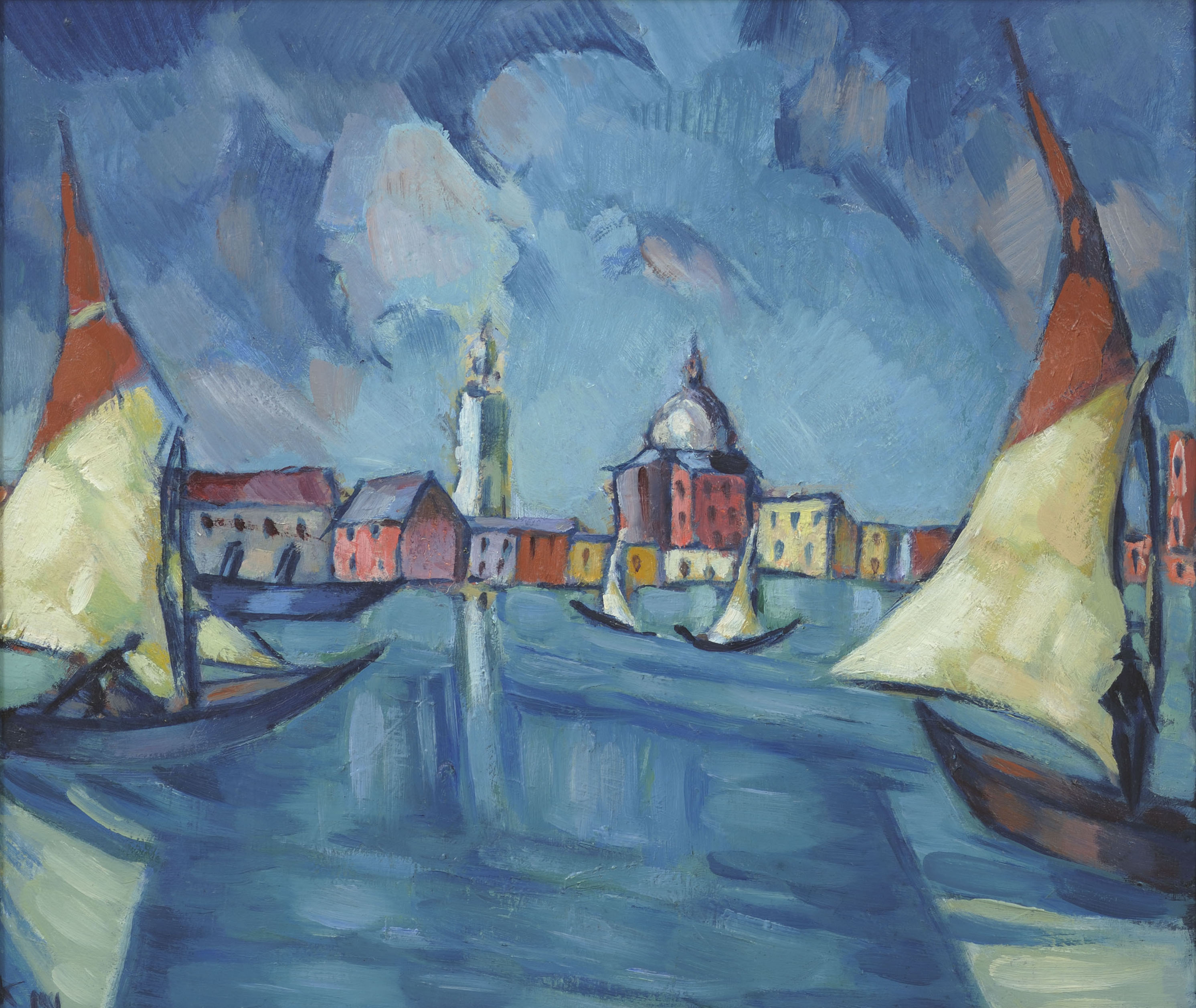 Konrad Mägi "Venice" (1922–1923) oil/pasteboard, 45.0 x 53.0 cm